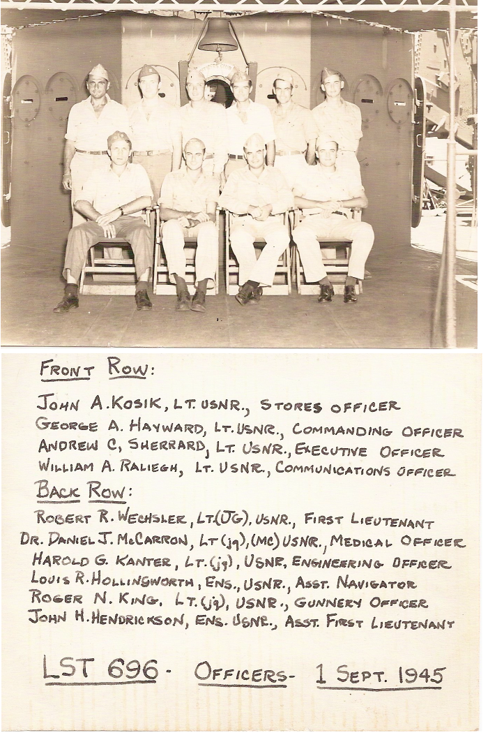 Officers of the LST-696 in September 1945